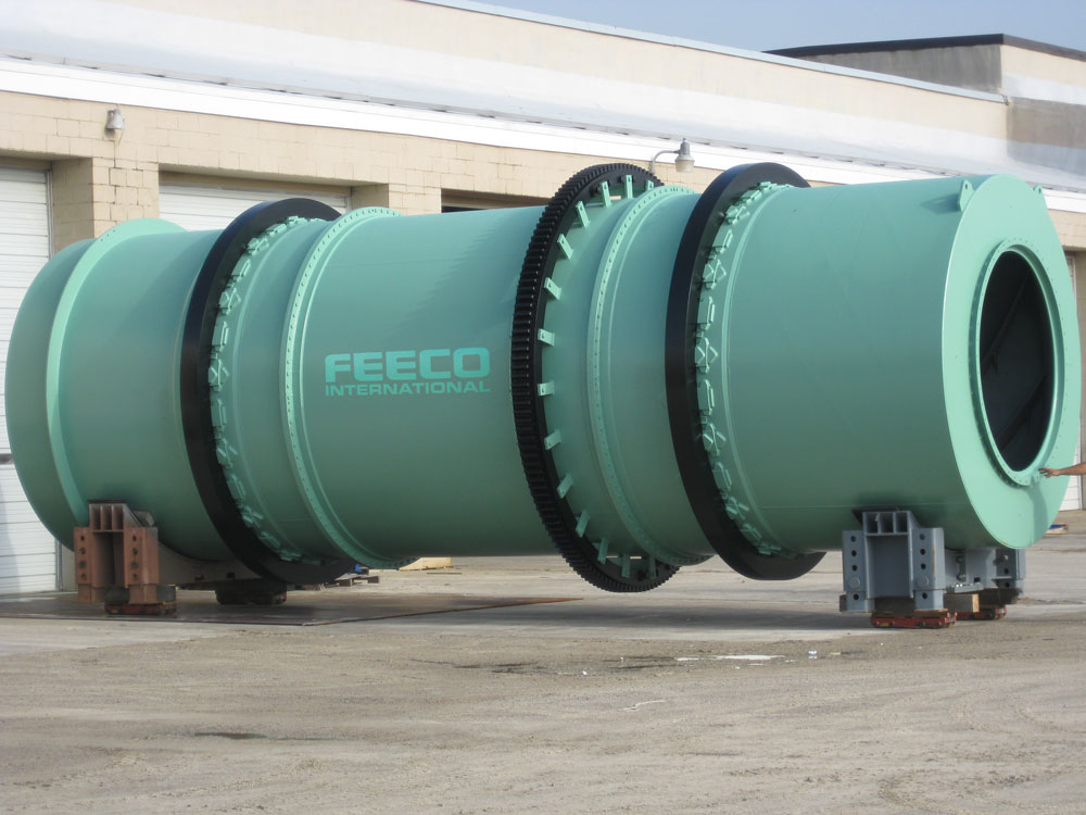 This image shows a rotary cooler engineered and manufactured by FEECO International: Green Bay, WI.